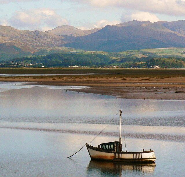 A lonely boat. Facing The Hill (SD1784), Millom, Cumbria UK.